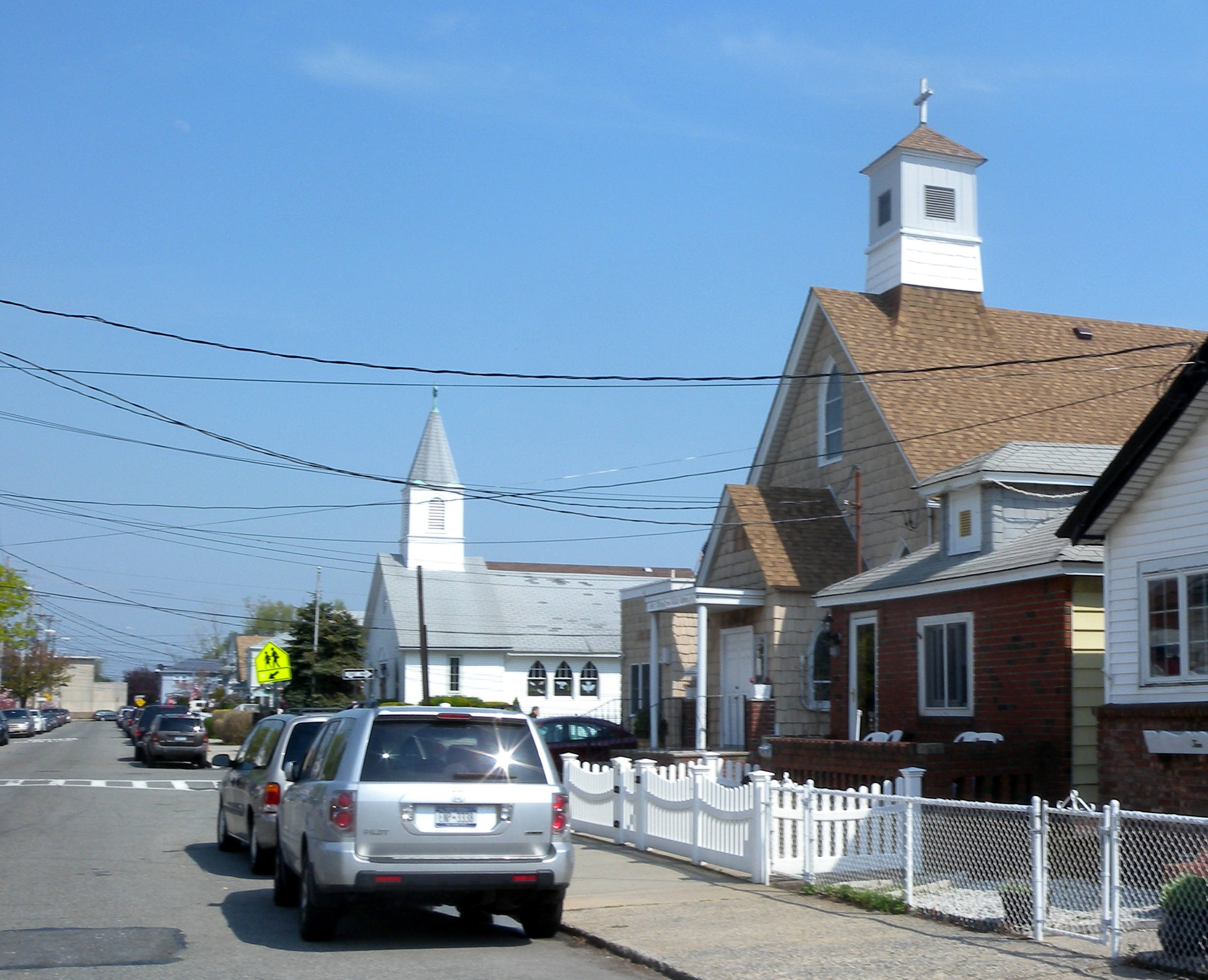 Looking east at St Virgilius Roman Catholic (near) and Christ Presbyterian (far) churches on a mostly sunny afternoon.